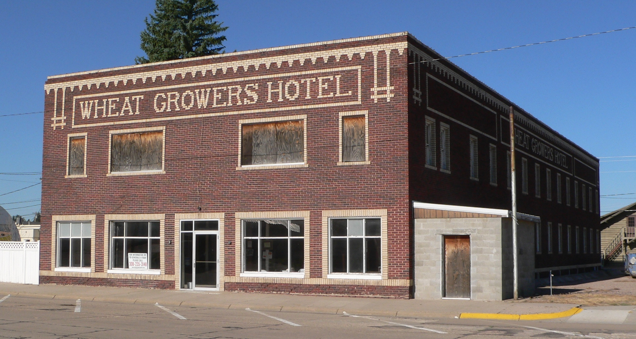 Wheat Growers Hotel at southwest corner of 1st Street and S. Oak Street in Kimball, Nebraska; seen from the northeast. The building was constructed in 1918, and is listed in the National Register of Historic Places.